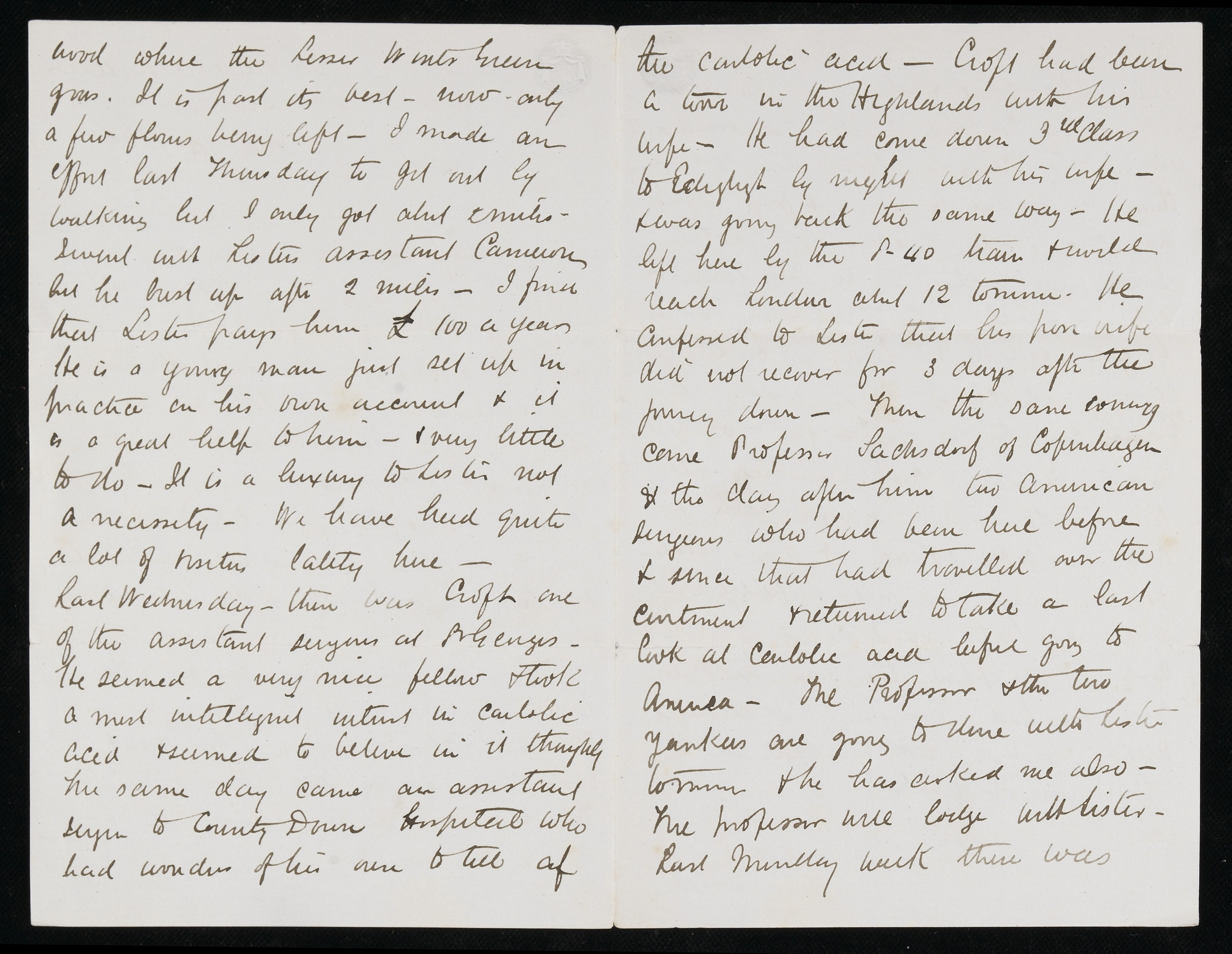 Second and third page of a letter from Marcus Beck to his mother concerning his time spend with Joseph Lister Archives & Manuscripts Keywords: Joseph Lister; Marcus Beck